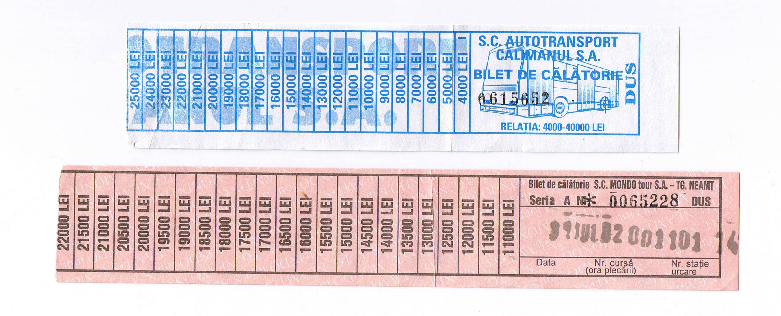 Romania, bus tickets.